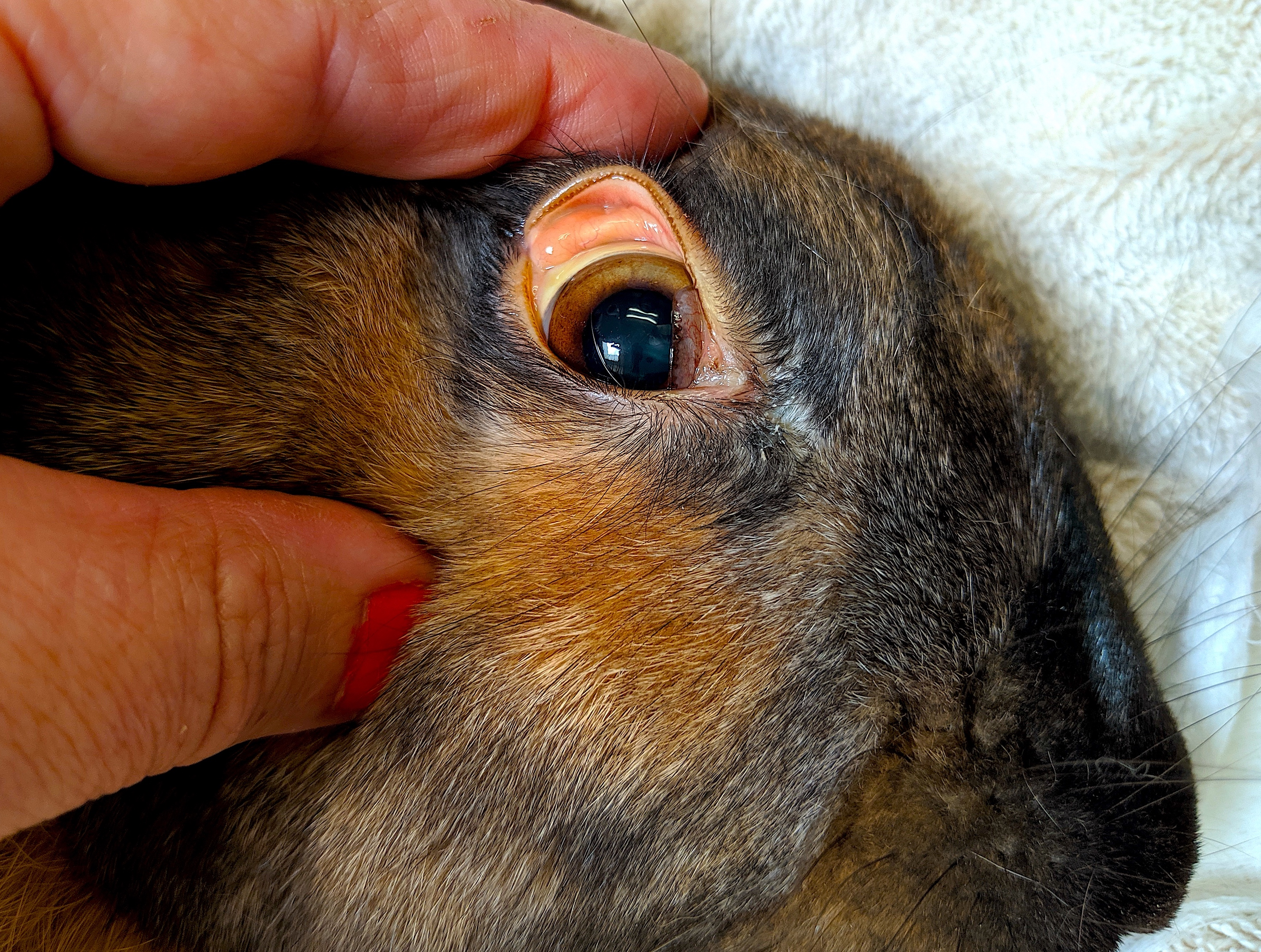 Adult rabbit (Oryctolagus cuniculus) with jaundice. Yellowing of the mucous membranes and sclera is visible.